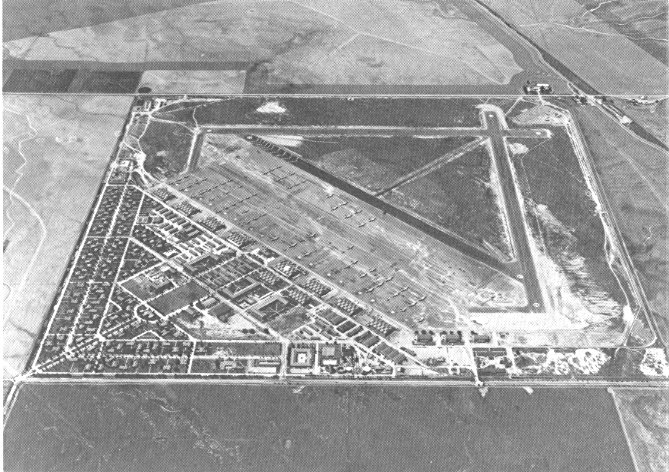 March Field, California